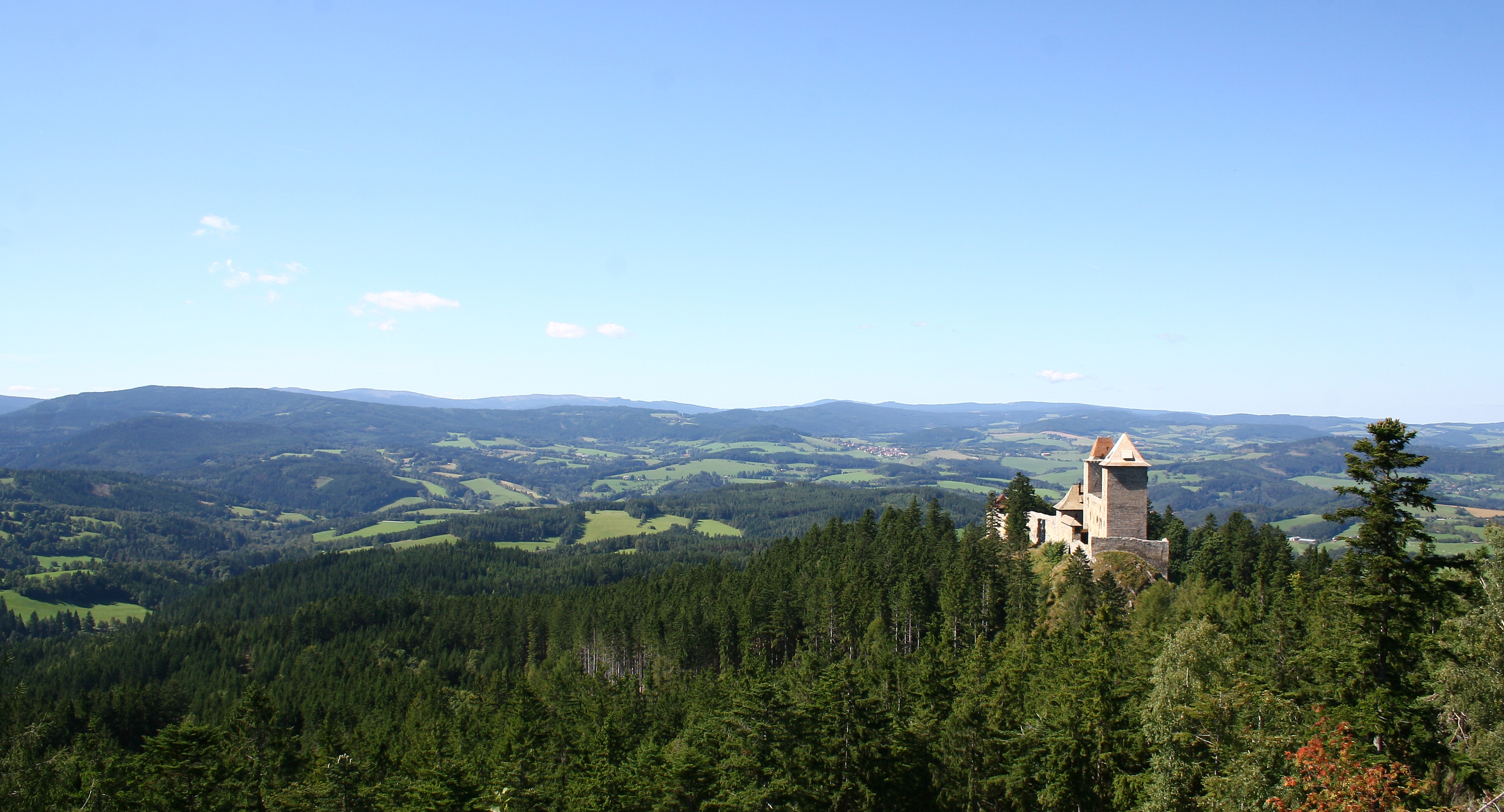 Kašperk Castle near Kašperské Hory, Klatovy District, Czech Republic